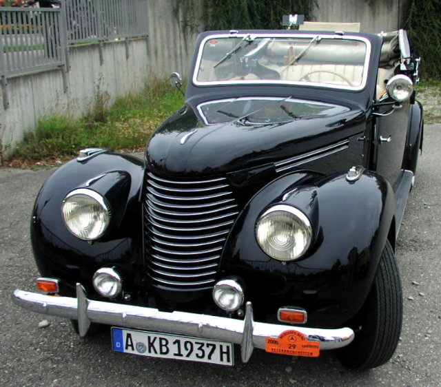 Mercedes-Benz 170 V (1937) with Sodomka body (1948)